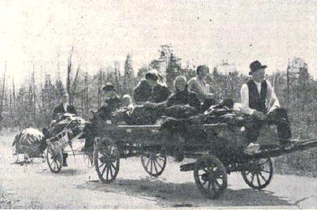 Slovenski begunci na poti v Tržič maja 1945